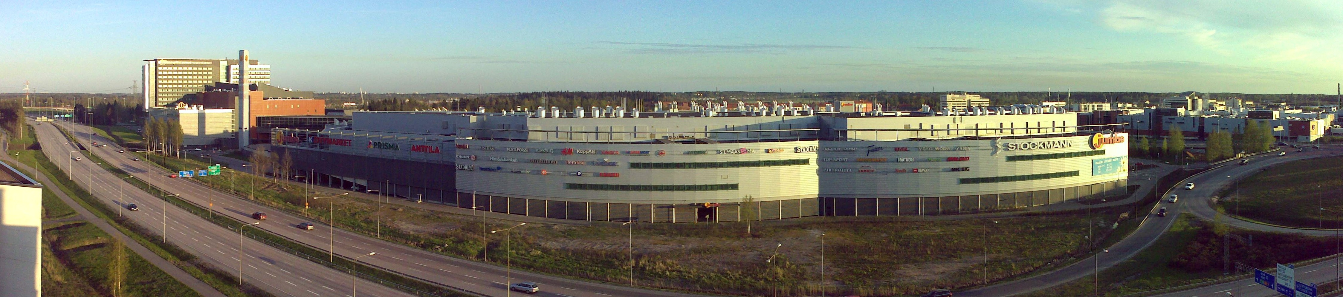 Cellphone panorama of Shopping center Jumbo in Vantaa, Finland.